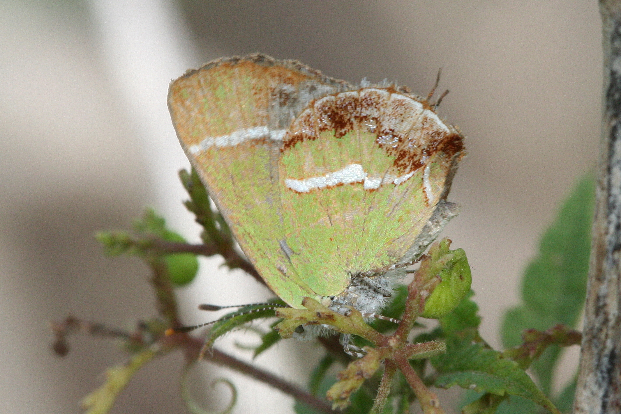 Chlorostrymon simaethis on Cardiospermum halicacabum